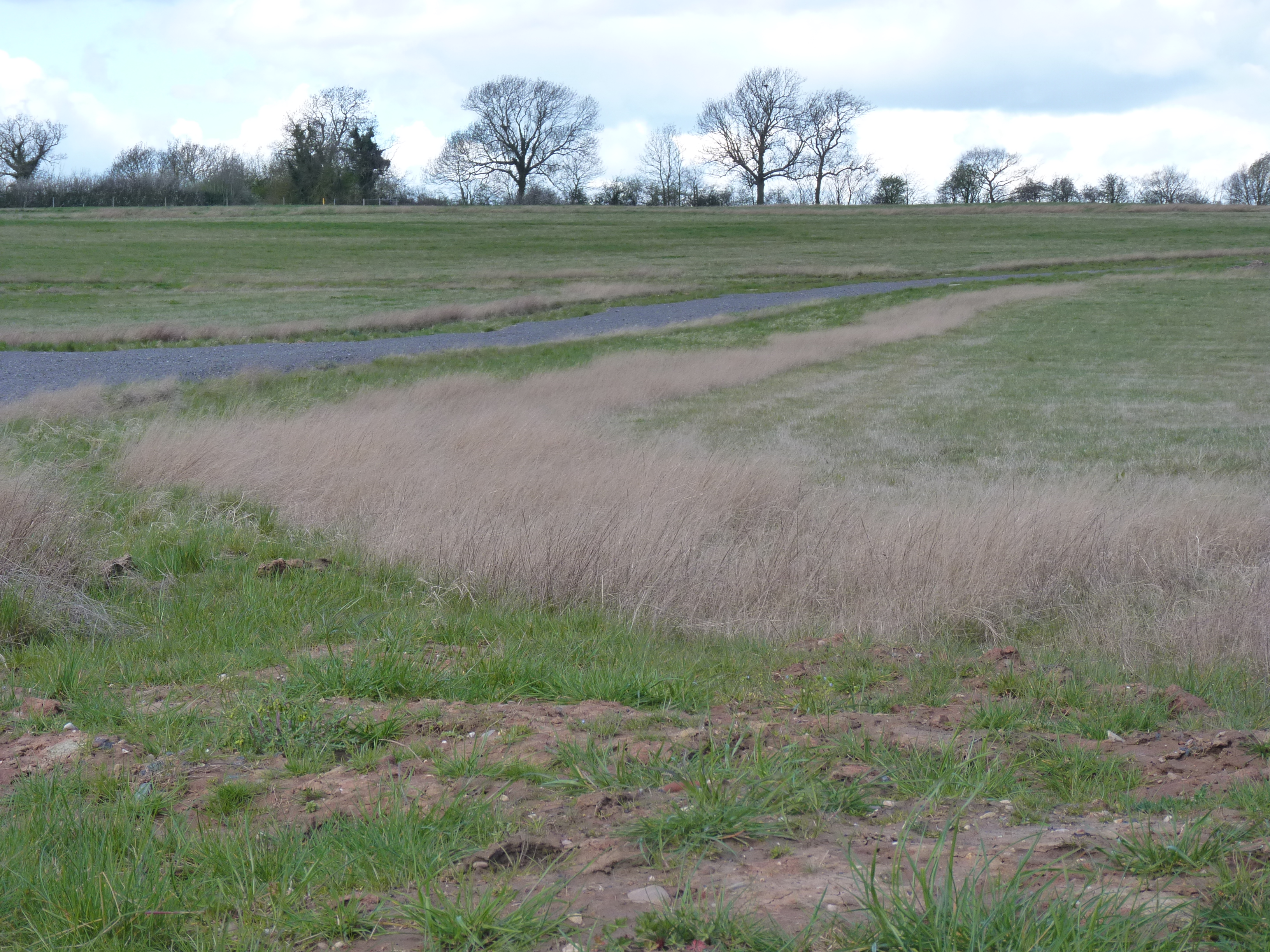 View across the site of the Woodland Trust's new 186ha site that will be planted with 300,000 trees, marking the Queen's Diamond Jubilee in 2012. The hedgerow is one several ancient hedges which cross the site.